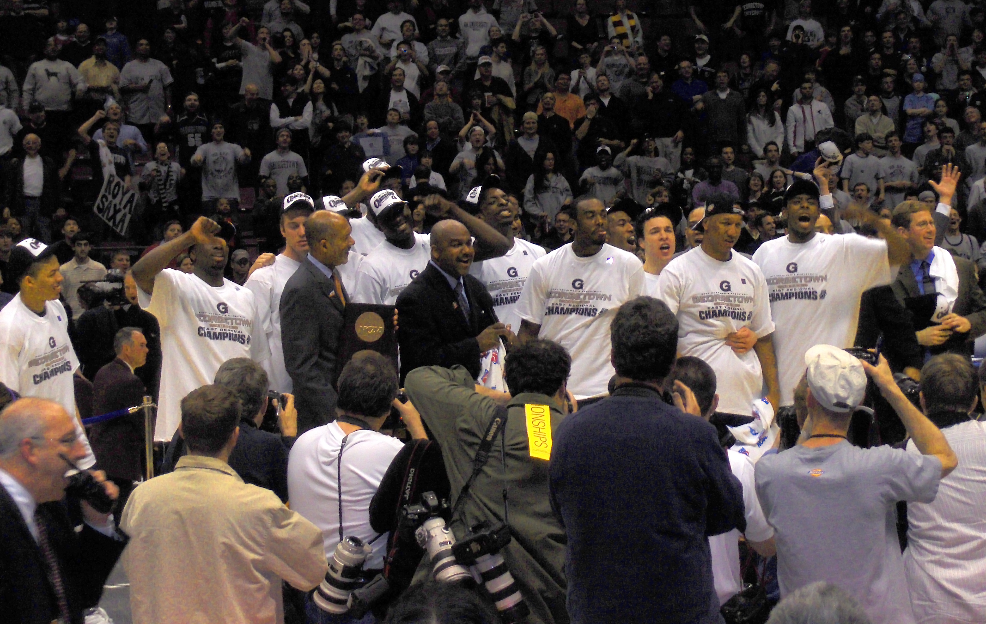 the 2006-2007 Georgetown Hoyas men's basketball team receiving the award for 2007 NCAA East Regional Champions after defeating the North Carolina Tar Heals in overtime 96-84, in Continental Airlines Arena in East Rutherford, New Jersey on March 25, 2007.